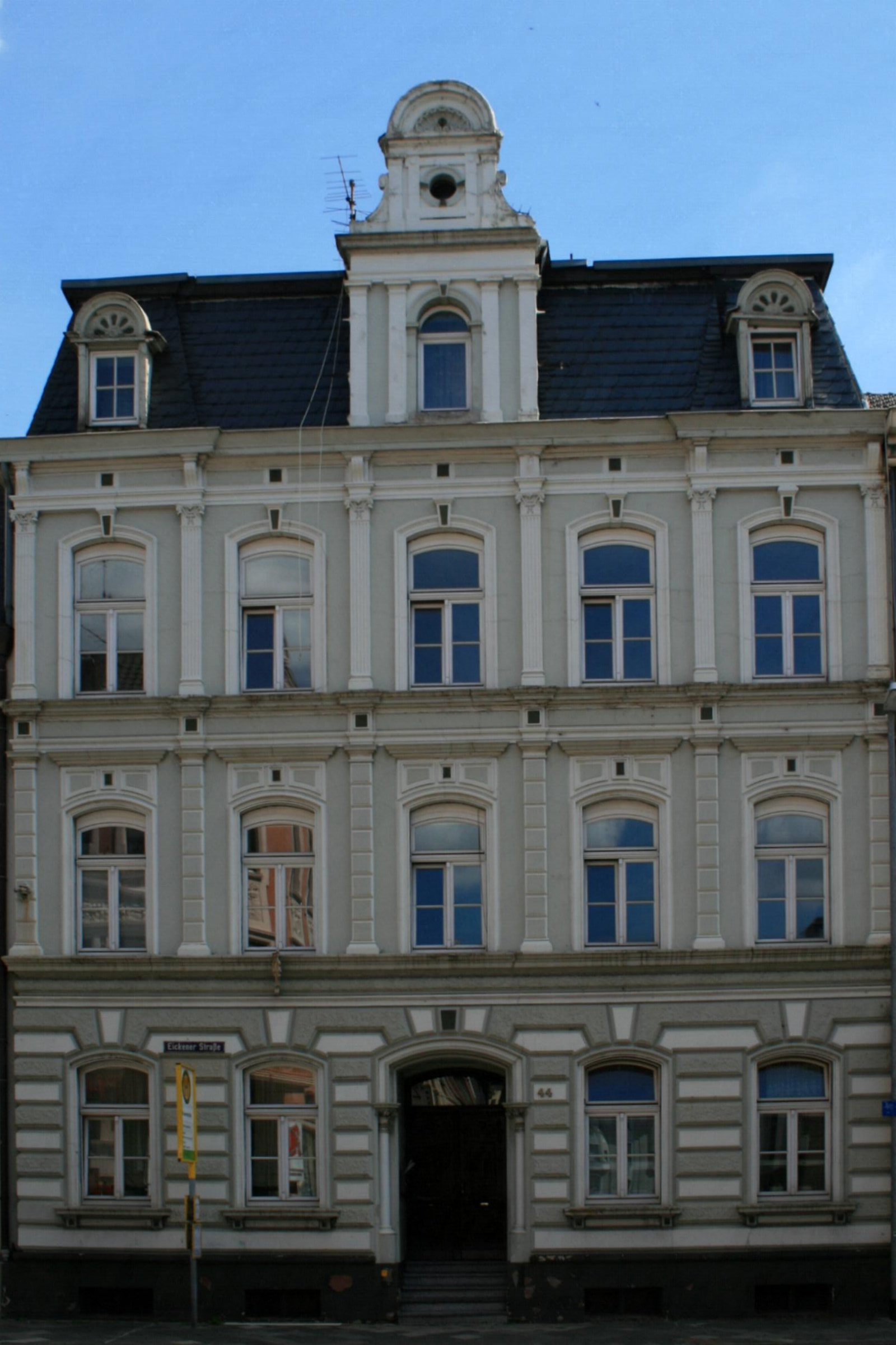 Cultural heritage monument No. E 002 in Mönchengladbach